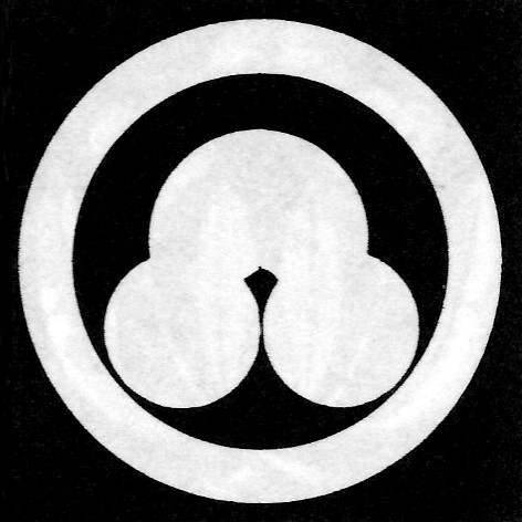 Crest of daimyo Aoki